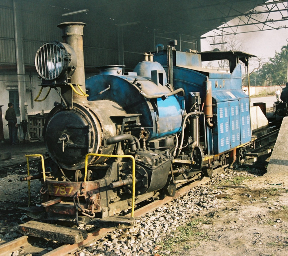 DHR Locomotive 787 out of use at Siliguri Shed. This locomotive has been modified to burn oil and has been rebuild to include a diesel generator and diesel compressor. It is the prototype for building new locomotives. 18th February 2005 Photographer - A.M.Hurrell Camera - Minolta X700 (35mm film) Modified - Scanned by film developer. File size and definition changed using Adobe Photoshop 5.0LE